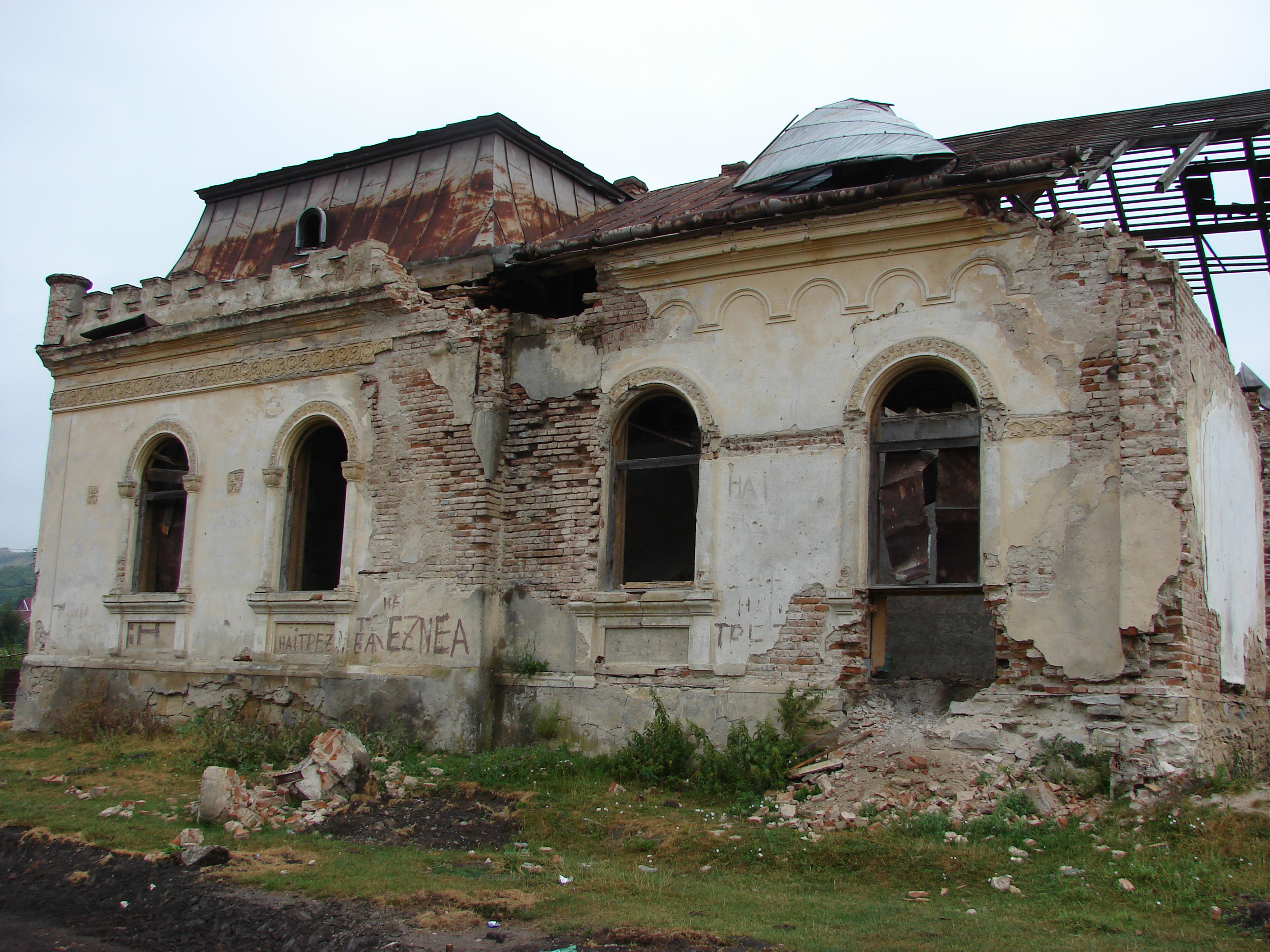 Poza 6